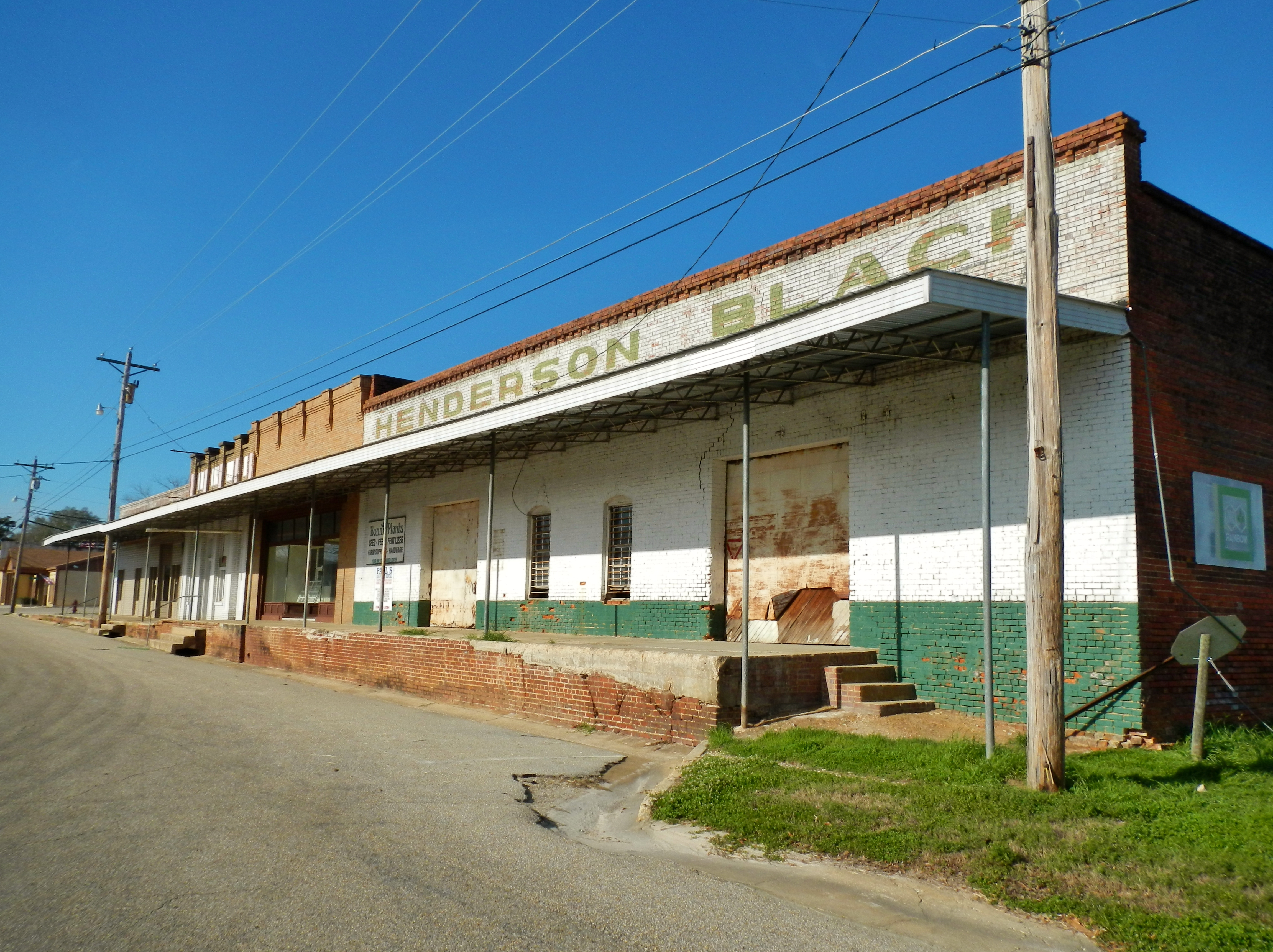 This is a photo of Dozier, Alabama.